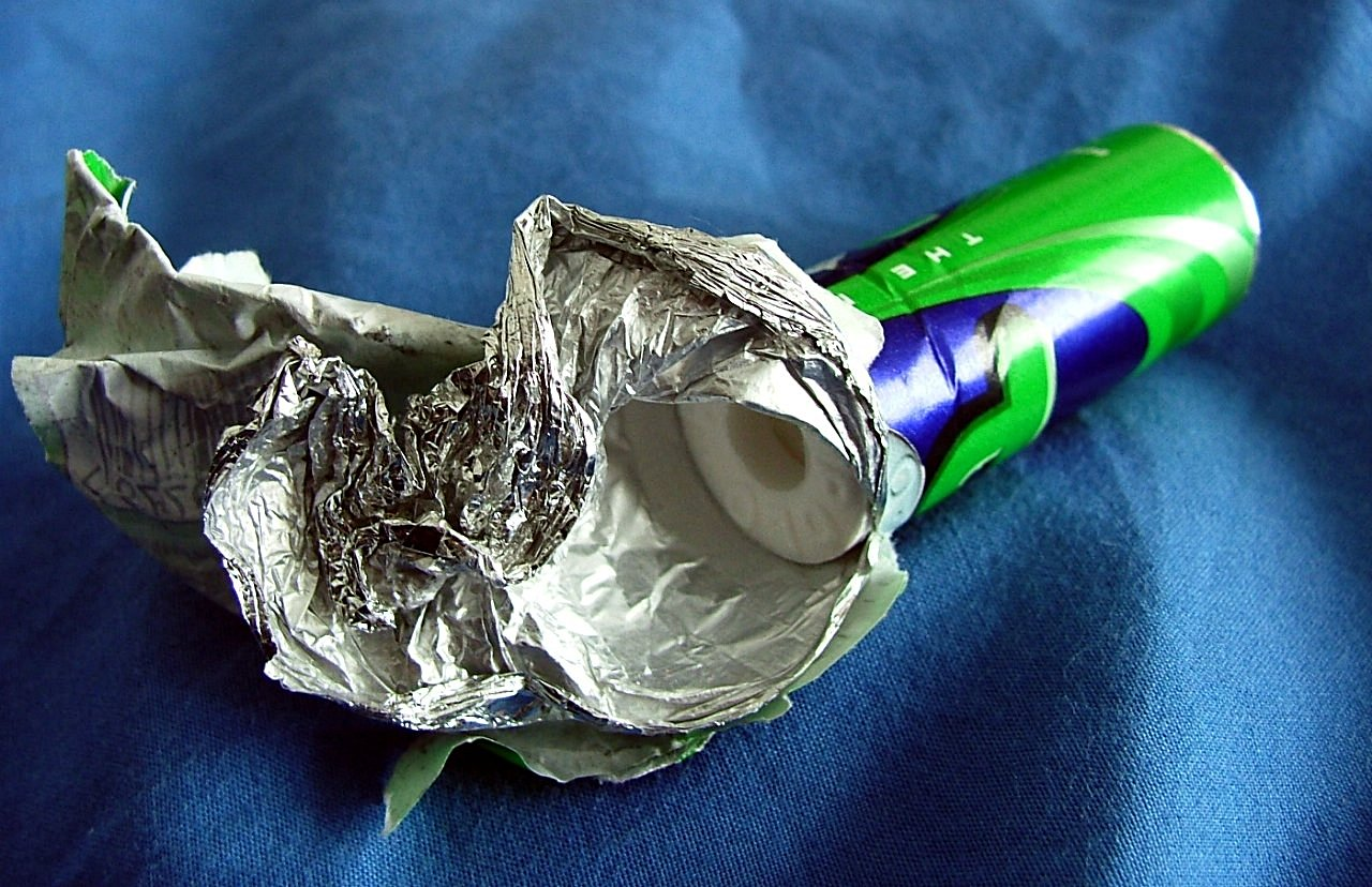 An unwrapped packet of Polo brand mints.